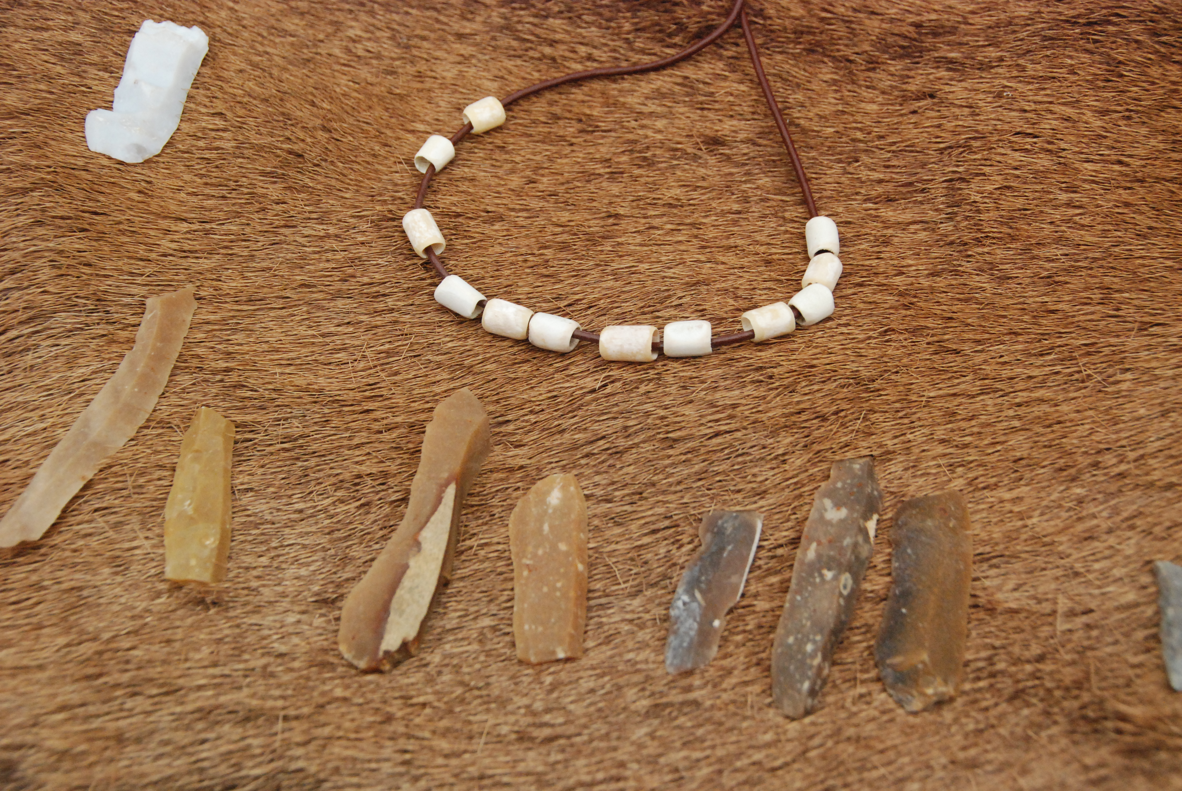 The knives made in Ametzagaina 25.000 years ago were similar to those presented by Aranzadi (2016-11-26)